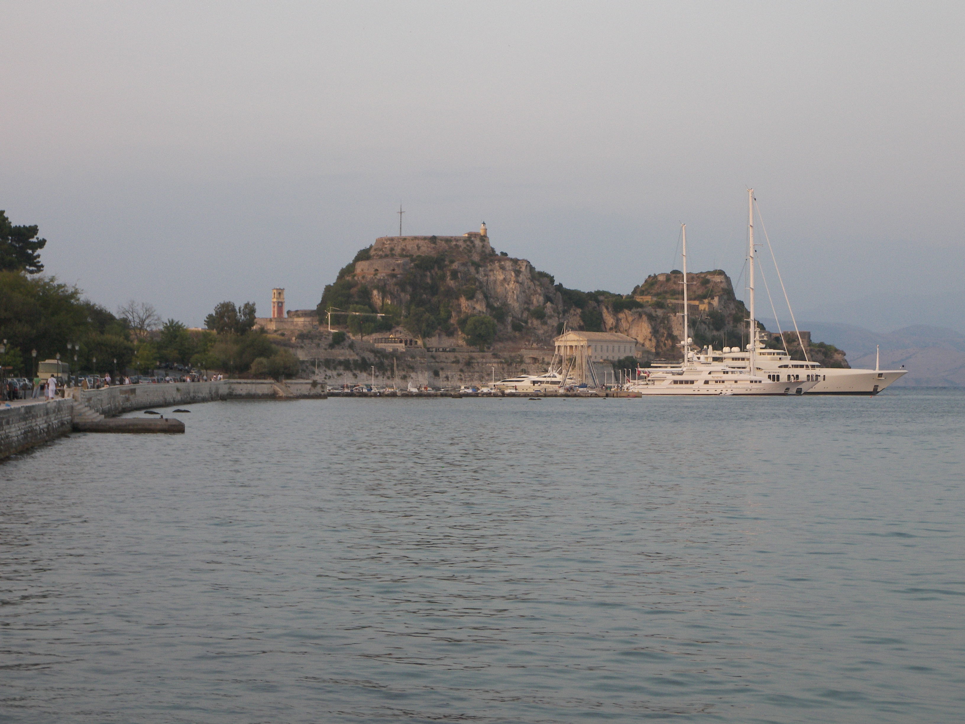 Filename